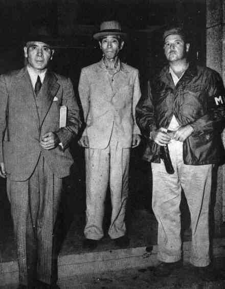 With Homma is Lieutenant General Shigenori Kuroda, center, and at the right is an American MP. General Homma is held for questioning September 15, 1945